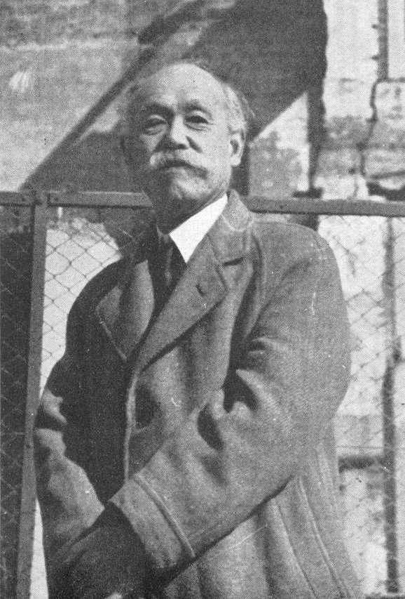 Portait of Ishiguro Tadaatsu, agricultural expert and minister, Japan